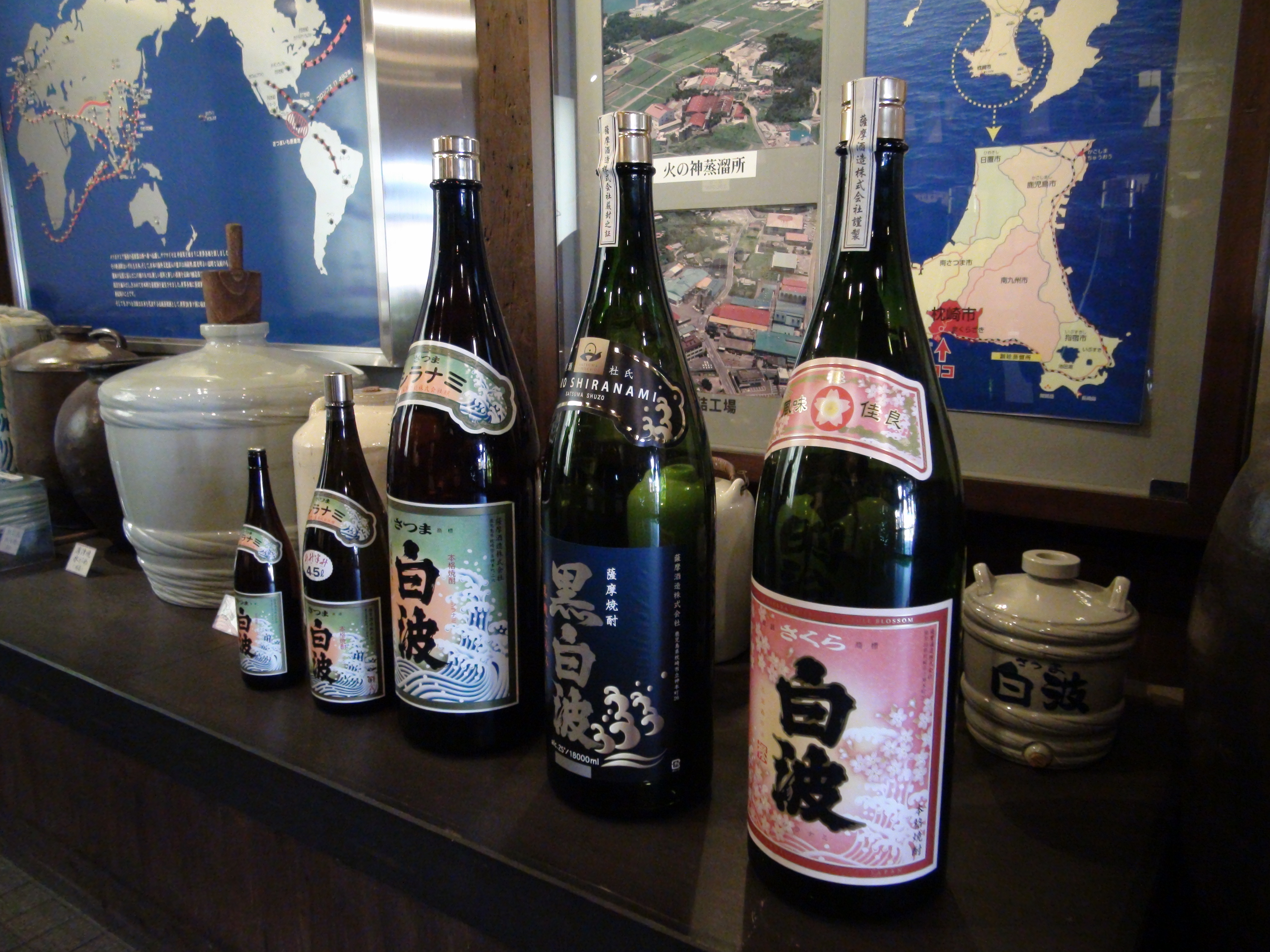 Satsuma Shuzo's Shochu bottles